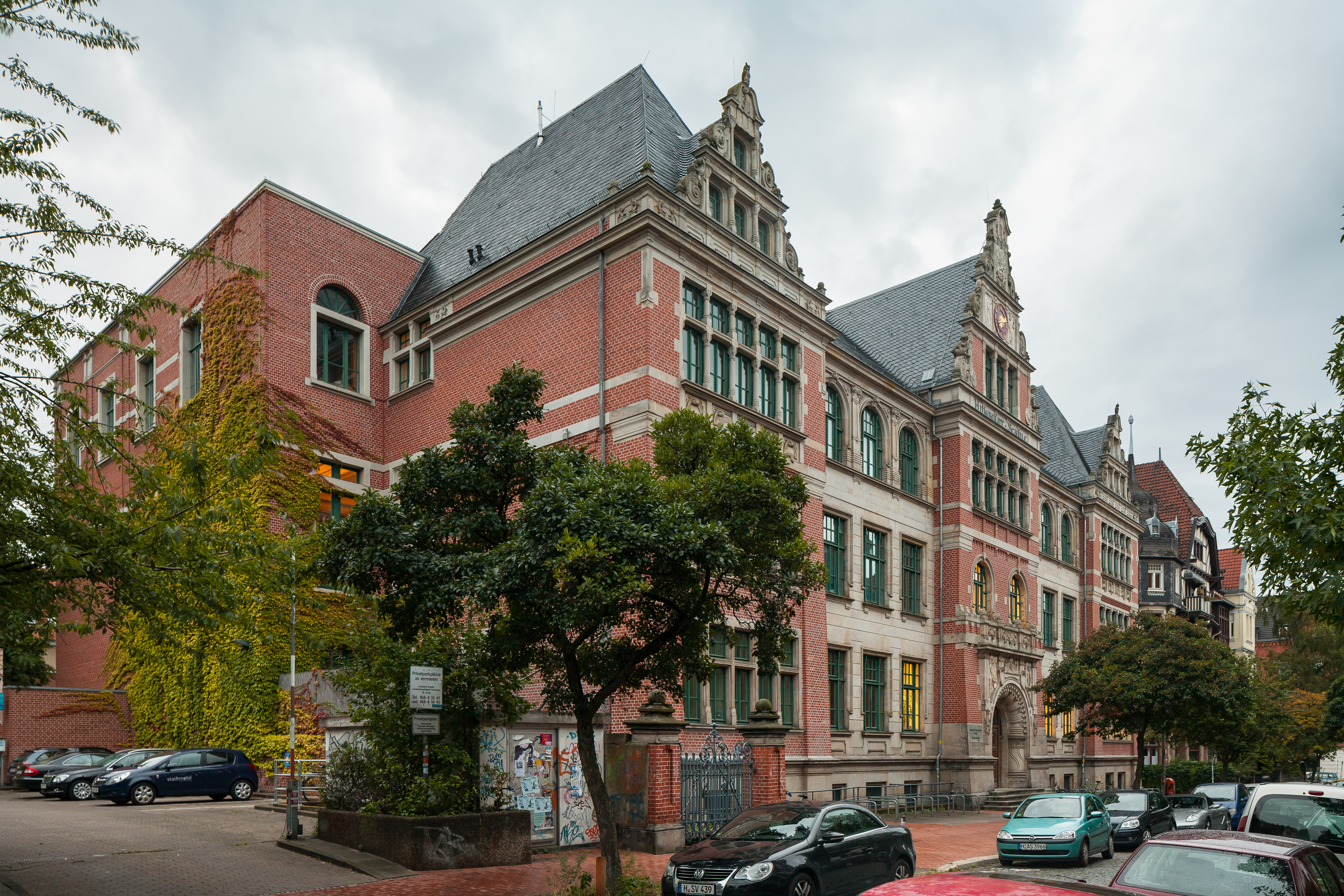 Former building of the Humboldt School located in the Beethovenstraße in Central Linden, Hanover, Germany.